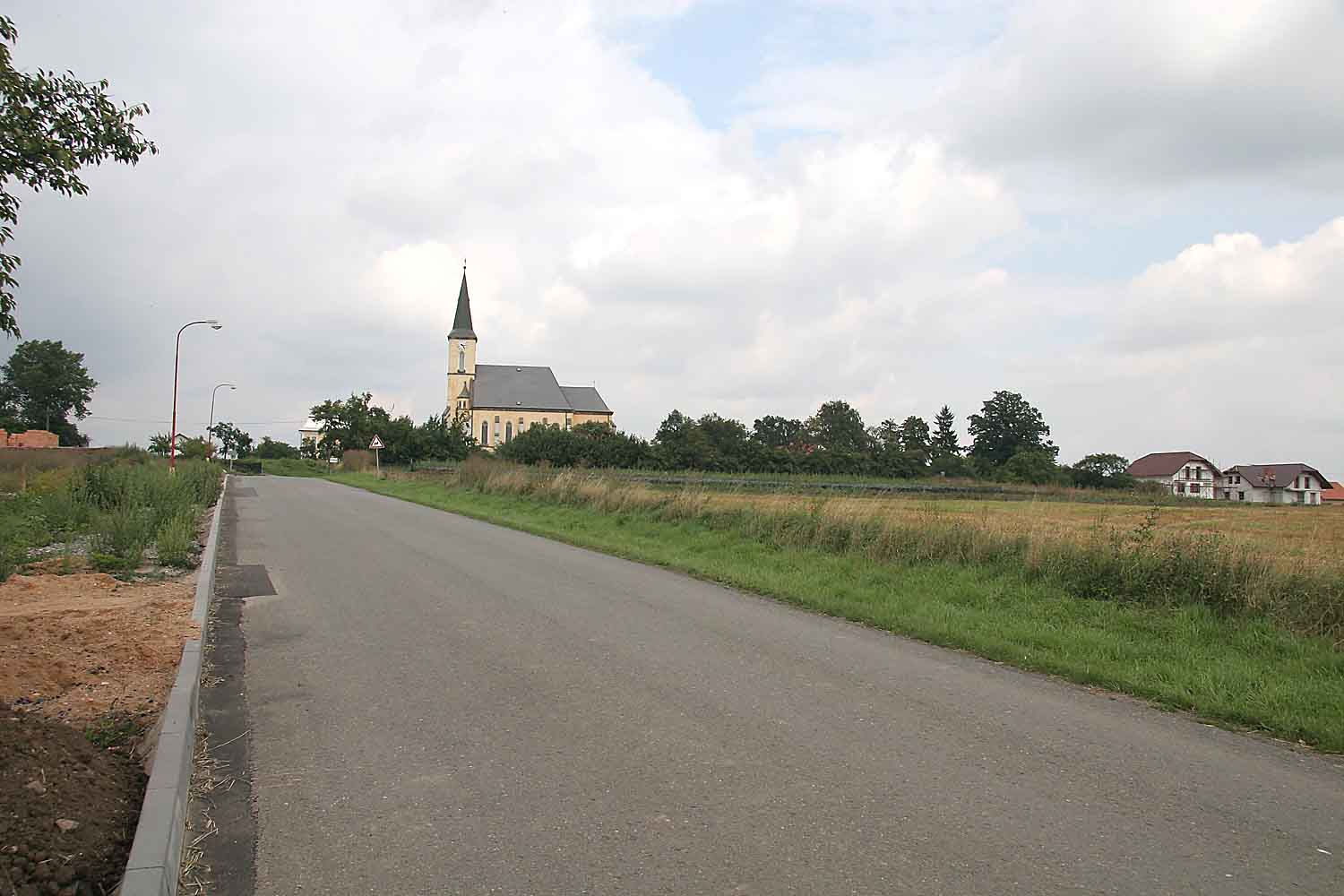 Gothic revival church of St John the Baptist (1894 – 96) in Dohalice, Hradec Králové District, Czech Republic Autor:Prazak Date: 26. 8. 2006